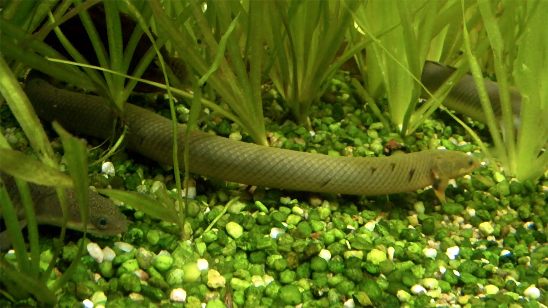 Polypterus senegalus and Erpetoichthys calabaricus